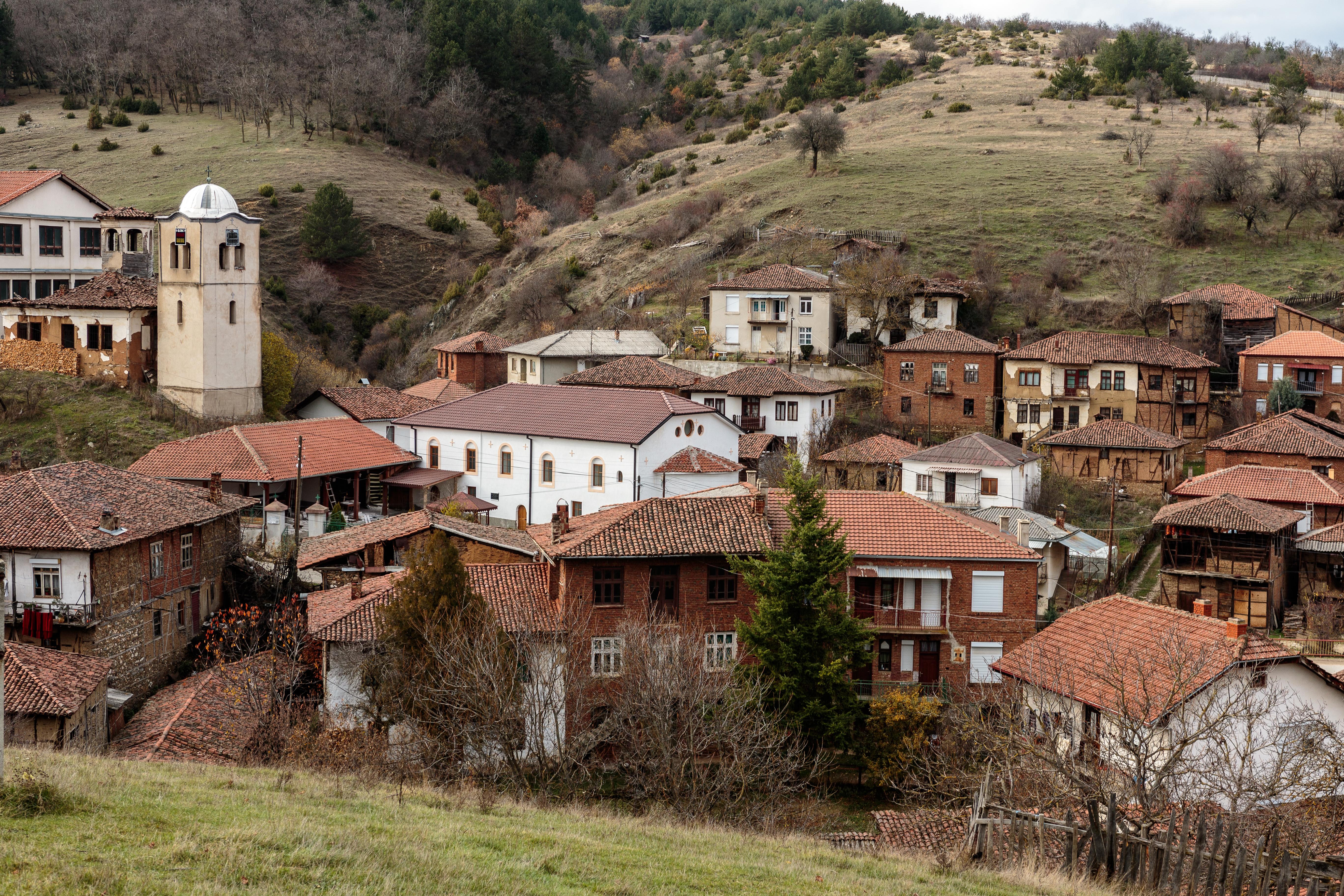 Panoramic view of the village Vladimirovo